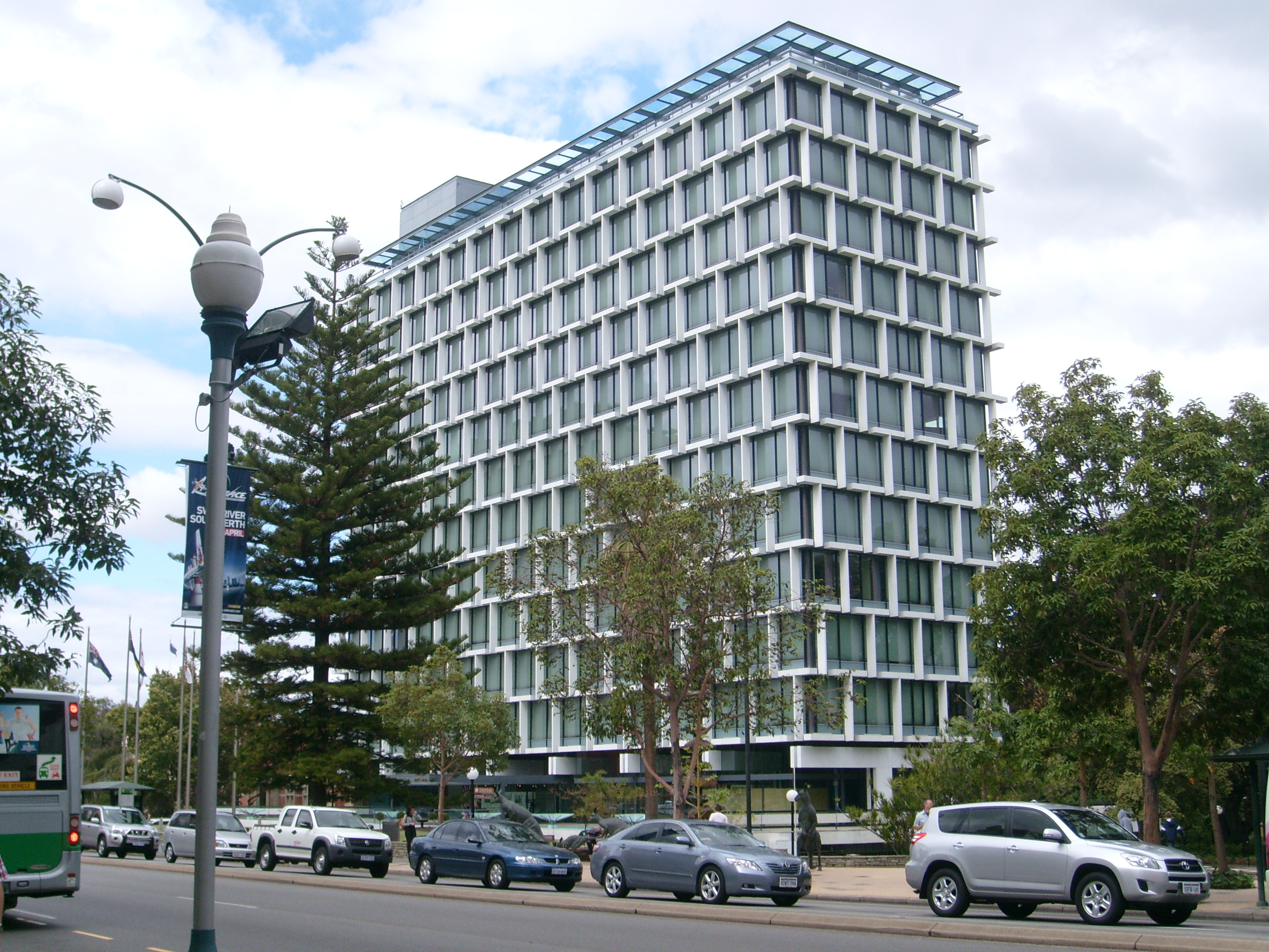 Perth council house, Jeffrey Howlett